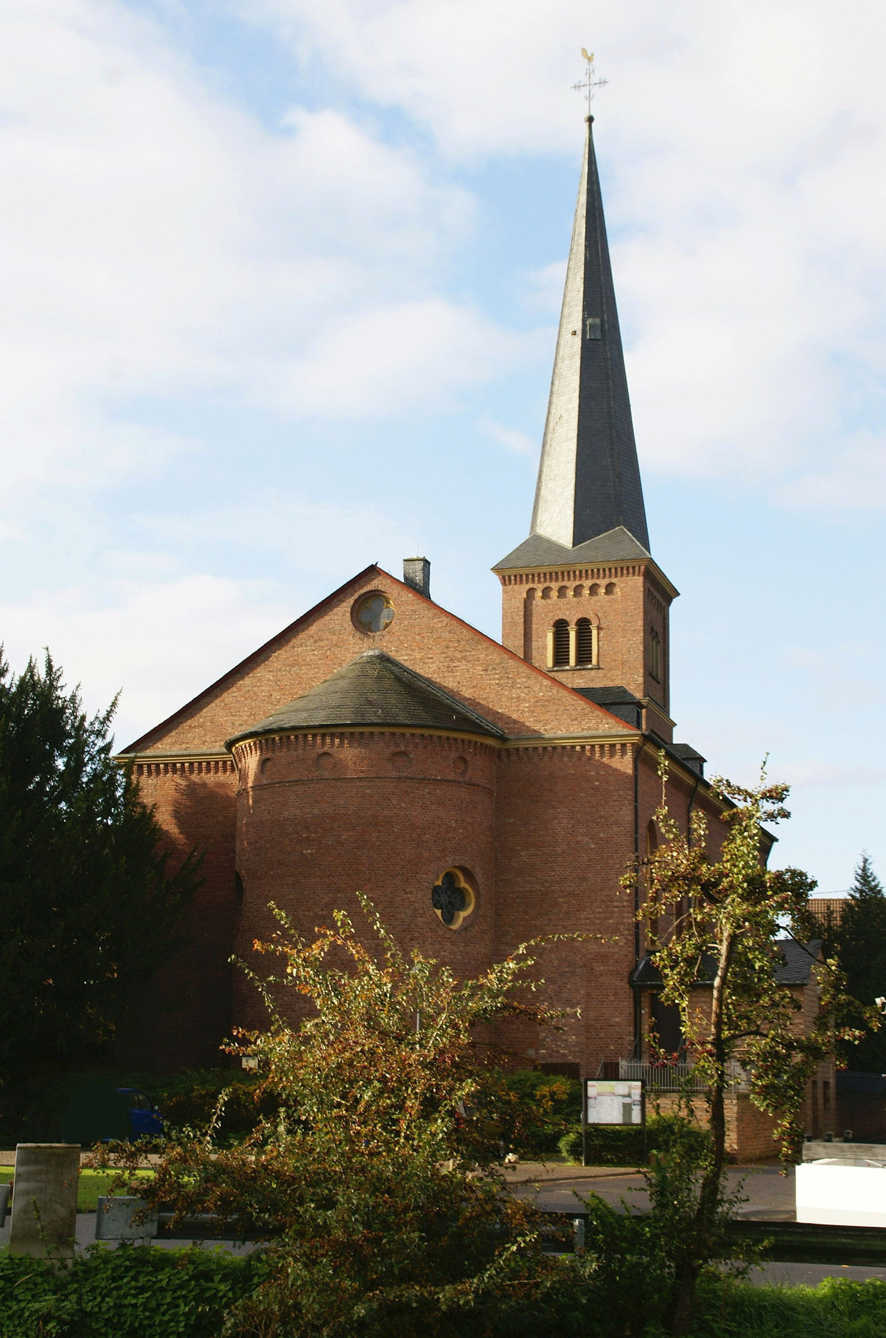 Catholic parish church of St. Kunibert in Heimerzheim, Kirchstraße. Sight from the Bachstraße over the river Swist